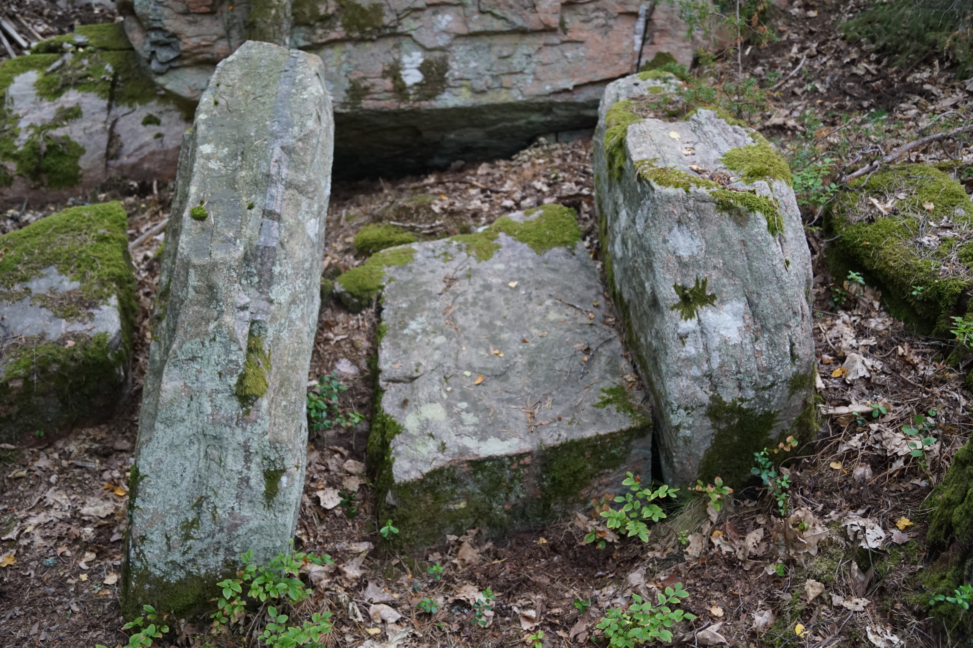 A tar stone in the wilderness Risveden in ale Municipality, Sweden. The use of tar stones was a method to burn tar for private subsistence.